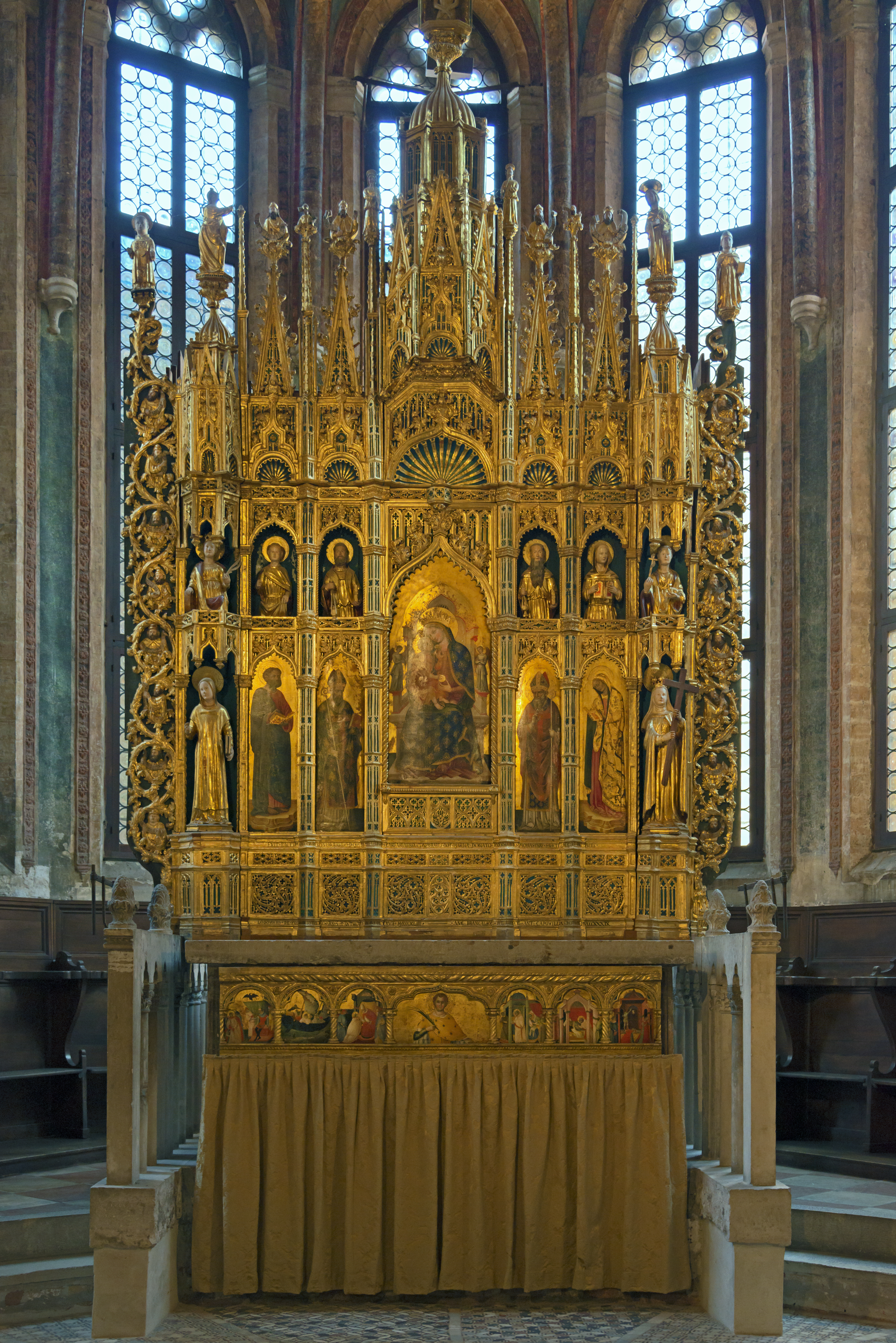 San Zaccaria in Venice - Polyptych of the Virgin Inlaid wood marquetry and sculpted by Ludovico da Forli in 1443. In the center "the Virgin to the throne and the child" flanked on the left by St. Blaise and Right by St. Martin dates of 1385 and are the painter Stefano di Sant'Agnese. Outside of this core group of three pictures left St. Mark and right St. Elisabeth painted by Antonio Vivarini.